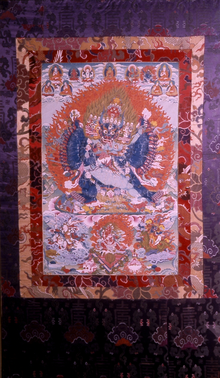 The identification deity Vajrabhairava conquers death and is an aspect of the bodhisattva of wisdom, Manjusri (whose head is his crowning head). He masters a buffalo demon, who stands for ignorance, and has incorporated a buffalo head among his own. At the very top is a small figure of Buddha Shakyamuni; among those joining him are Atisha (died 1054), who carried Buddhist texts from India to Tibet, and the reformist teacher Tsongkhapa (1357-1419), founder of the Gelugpa order. At bottom center is the red Mahakala, a protector deity.